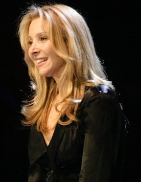 Lisa Kudrow at the 2009 Streamy awards.